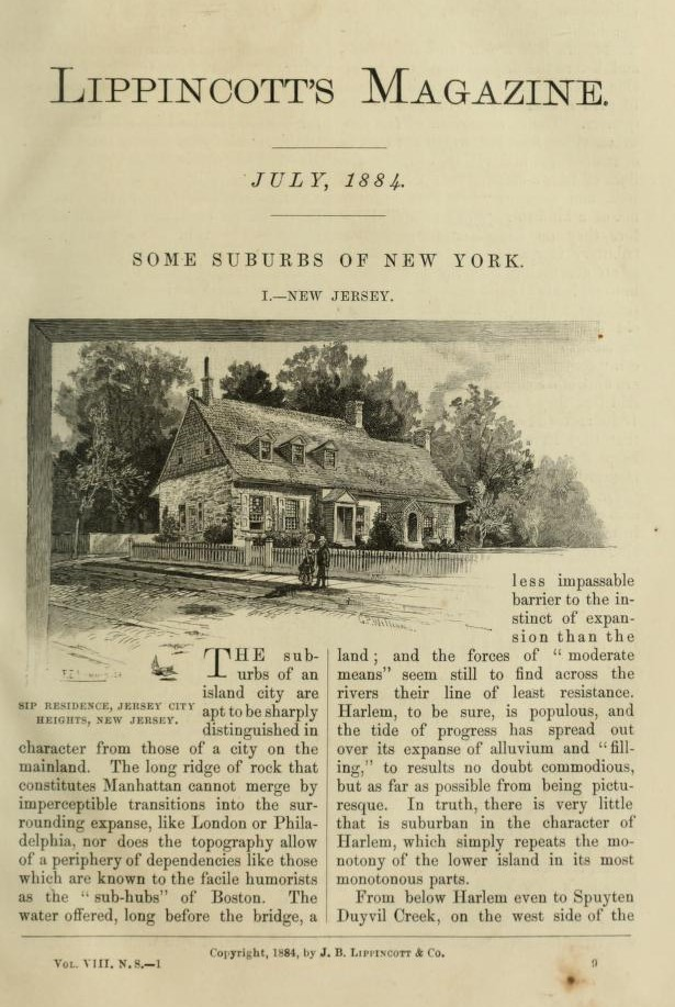 An article from Lippincott's Magazine from July 1884